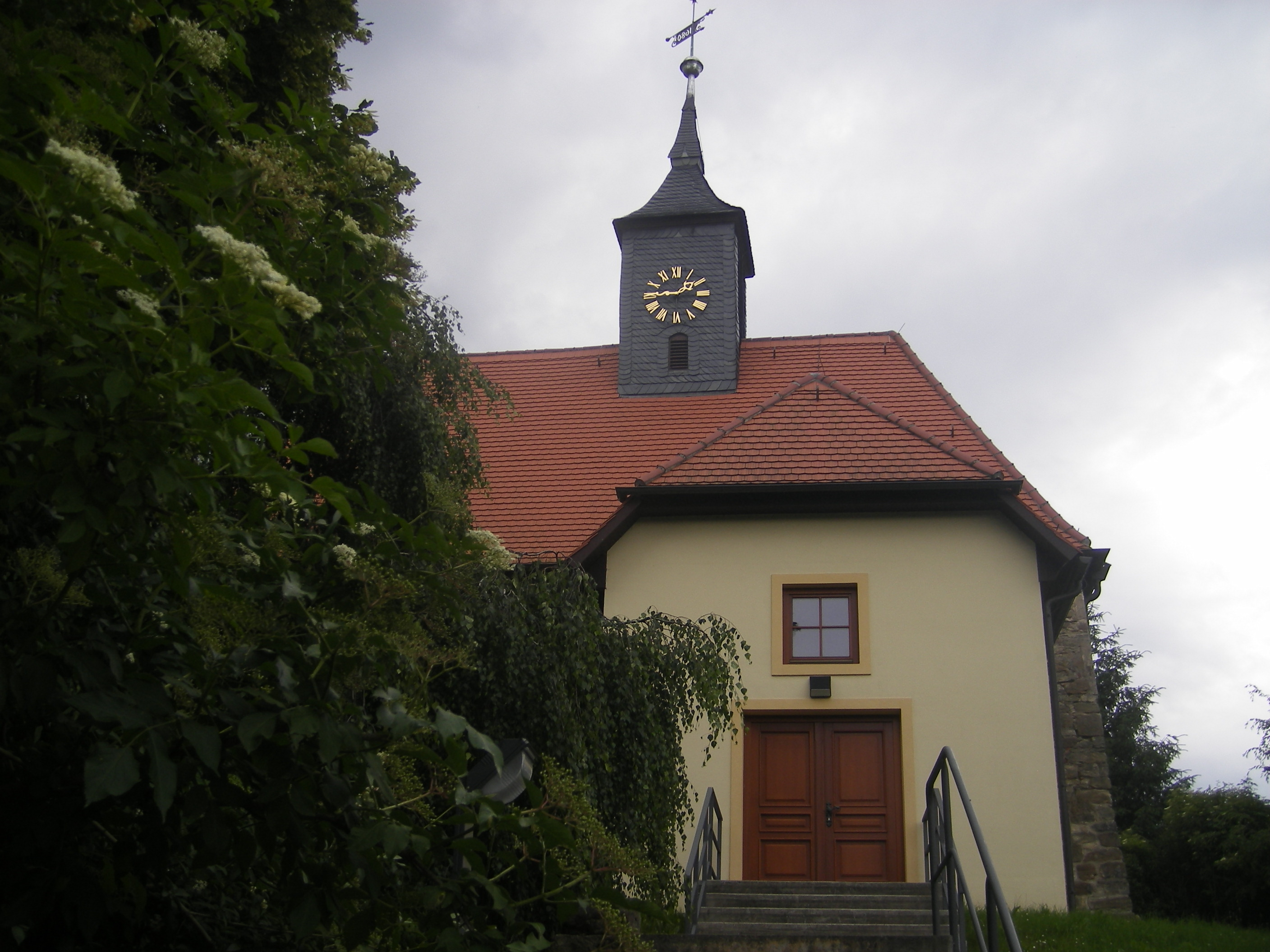 Church in Mohlis near Altenburg/Thuringia